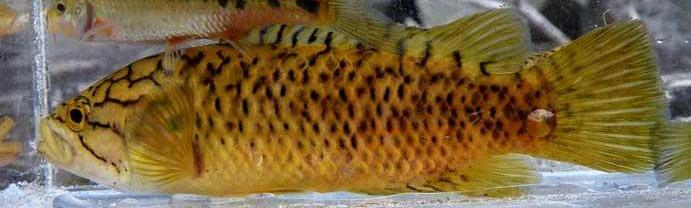 A Cape kurper from Jan du Toit's River, Western Cape, South Africa